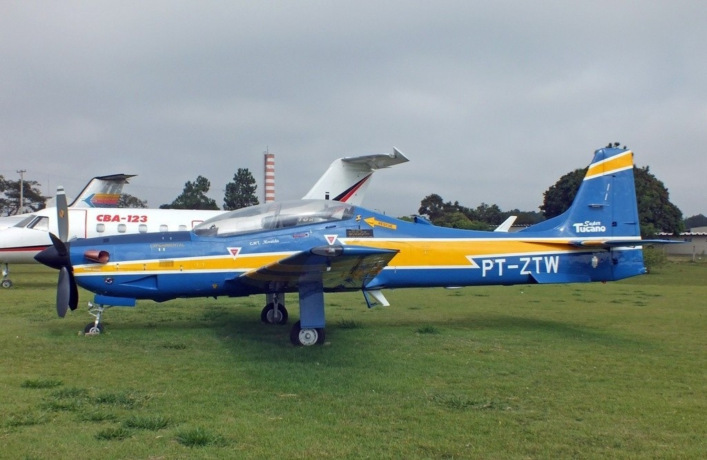 EMB-312H PT-ZTW at Museu do Centro Tecnico Aeroespecial in Sao Jose Dos Campos, SP - Brazil